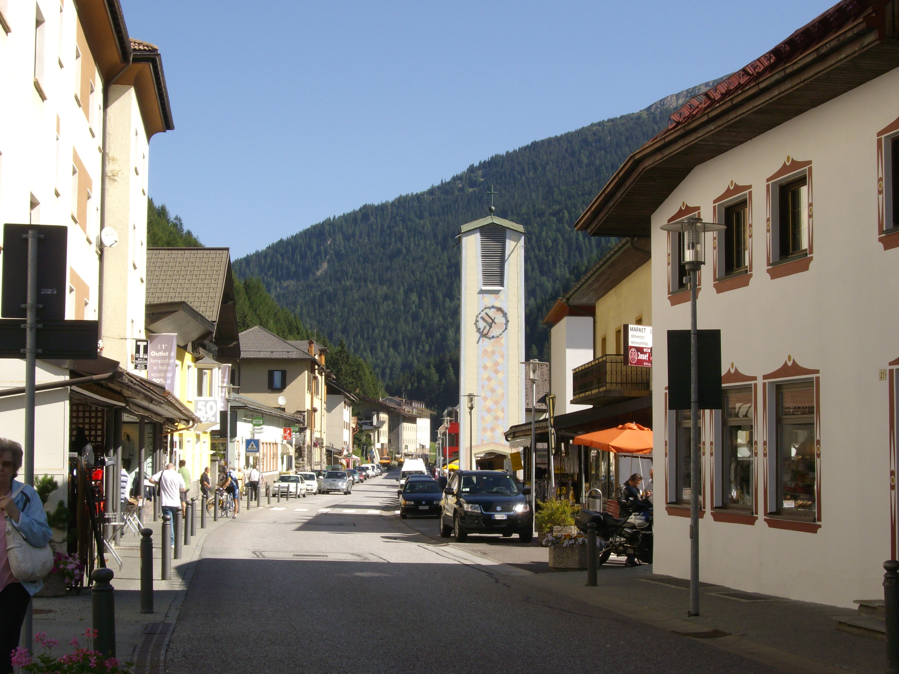 Italy, South Tyrol, Brenner Pass. Via San Valentino is the main street at Brenner with shops, bar and the new shopping centre.